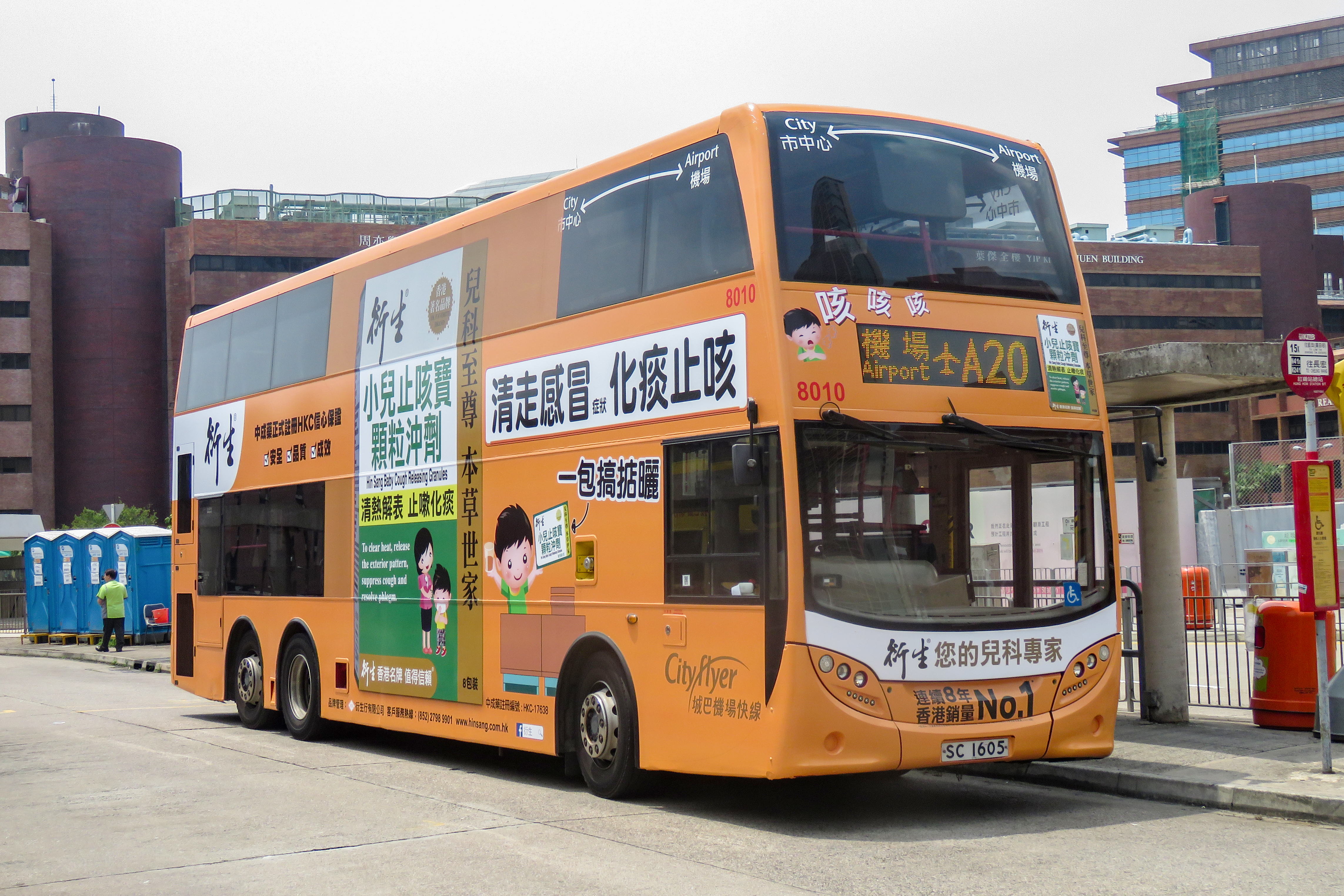 Just received a new advertisement: Hin Sang baby cough releasing granules.